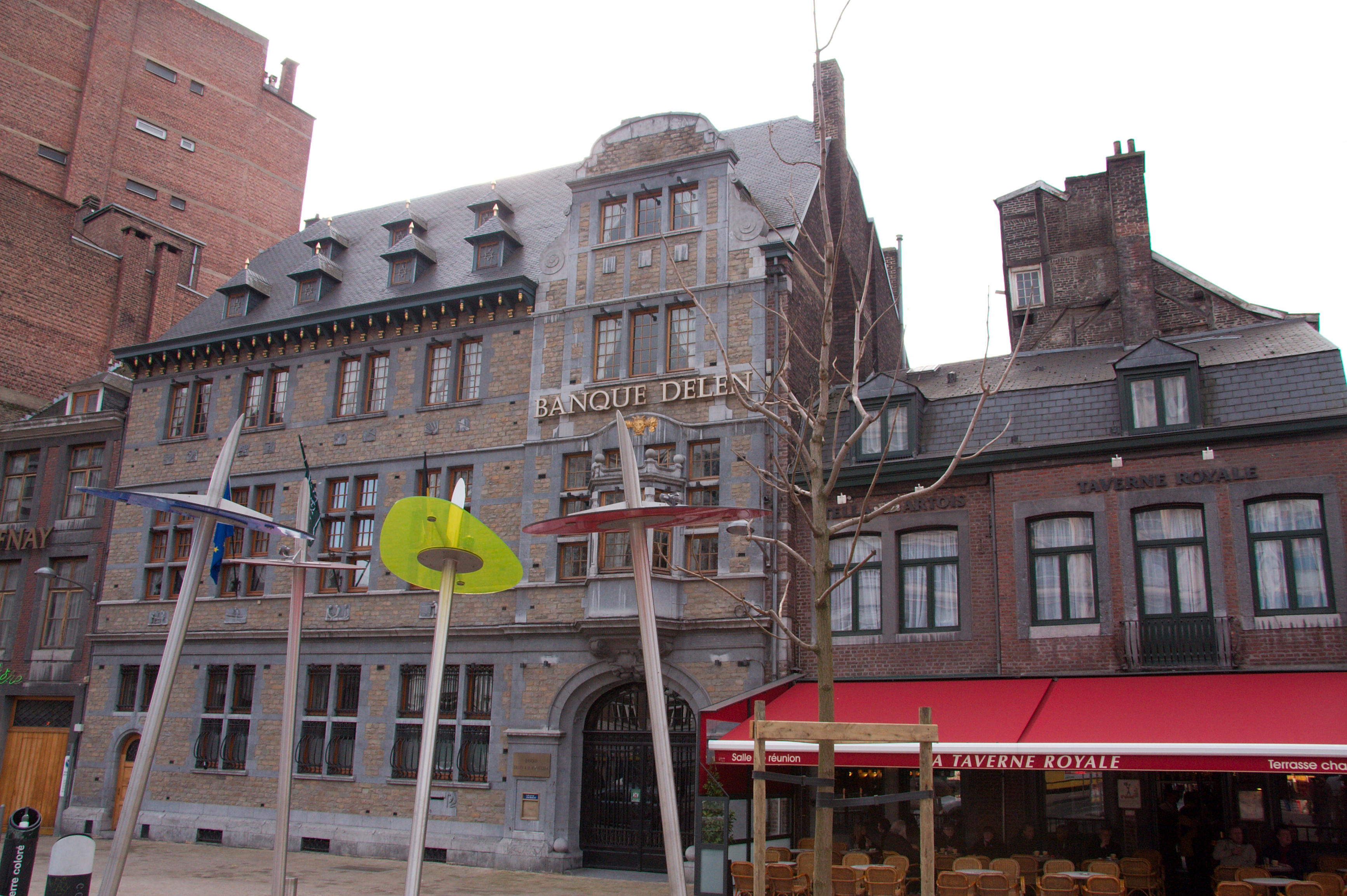 Bank Delen in Liège (Belgium).